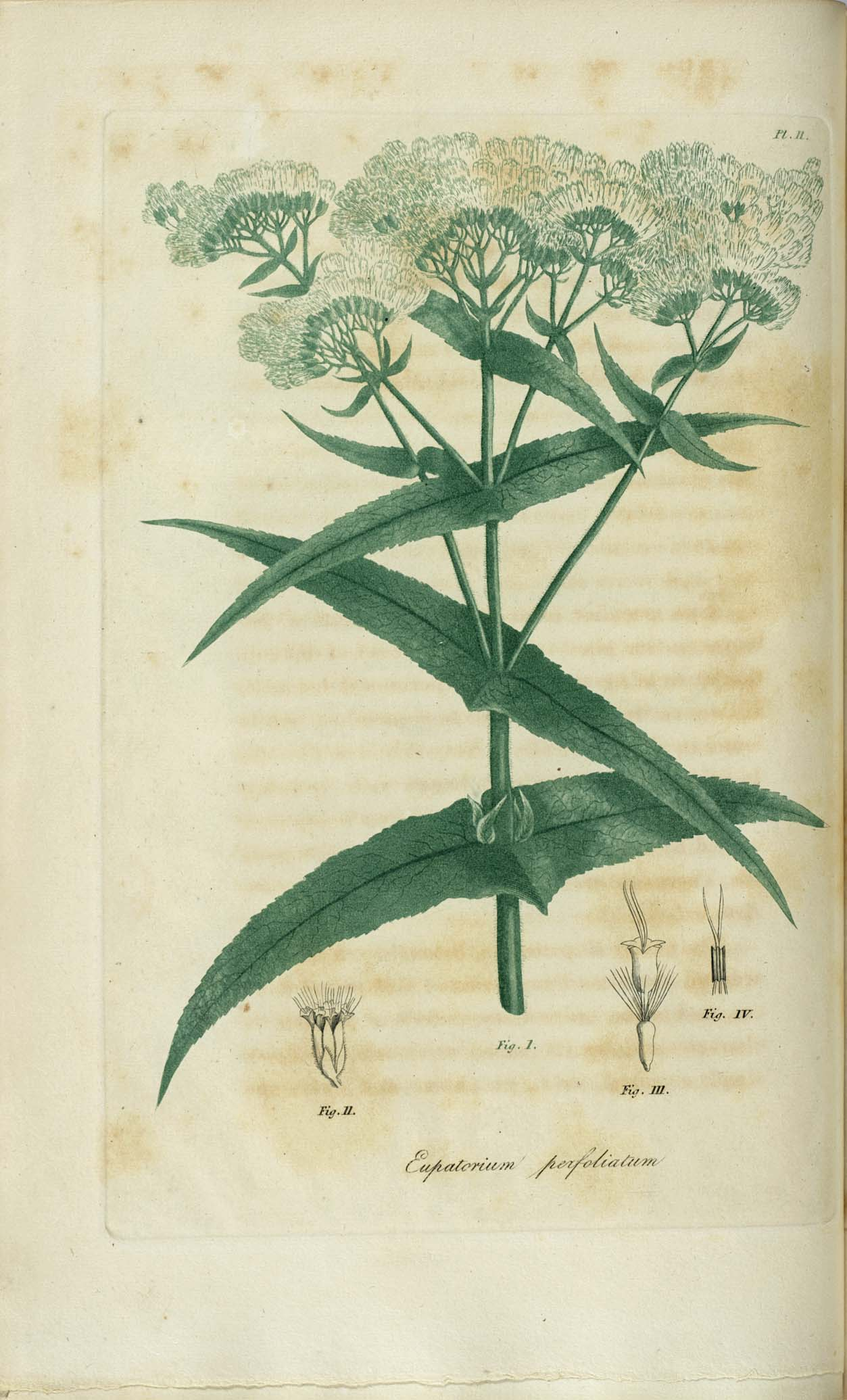 Plate To view the entire book, please visit American Medical Botany.